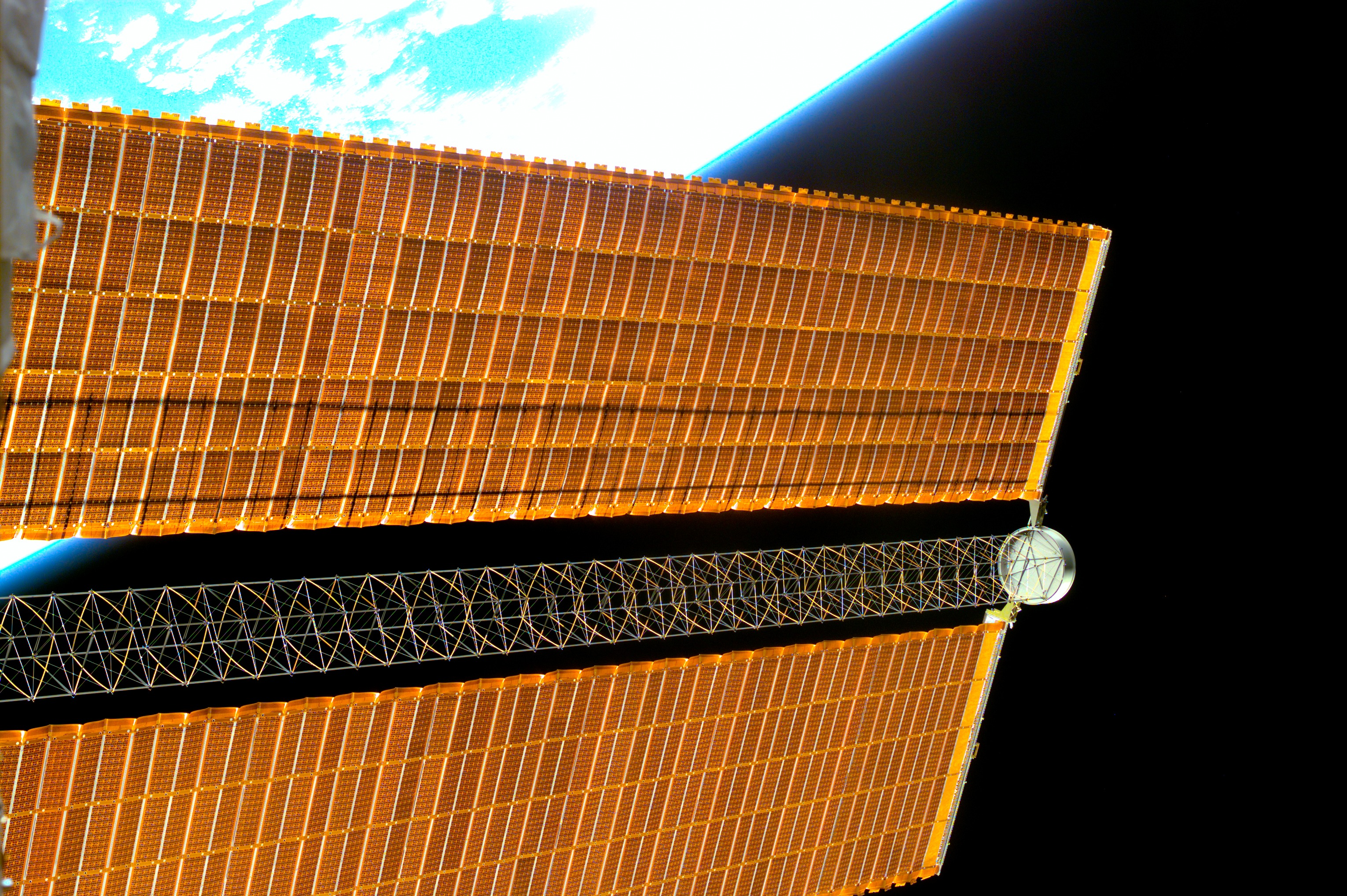 A medium closeup view of part of the starboard solar array wing panel, backdropped against the darkness of space and Earth's limb, was captured with an electronic still camera (ESC) from inside the crew cabin of the Space Shuttle Endeavour.